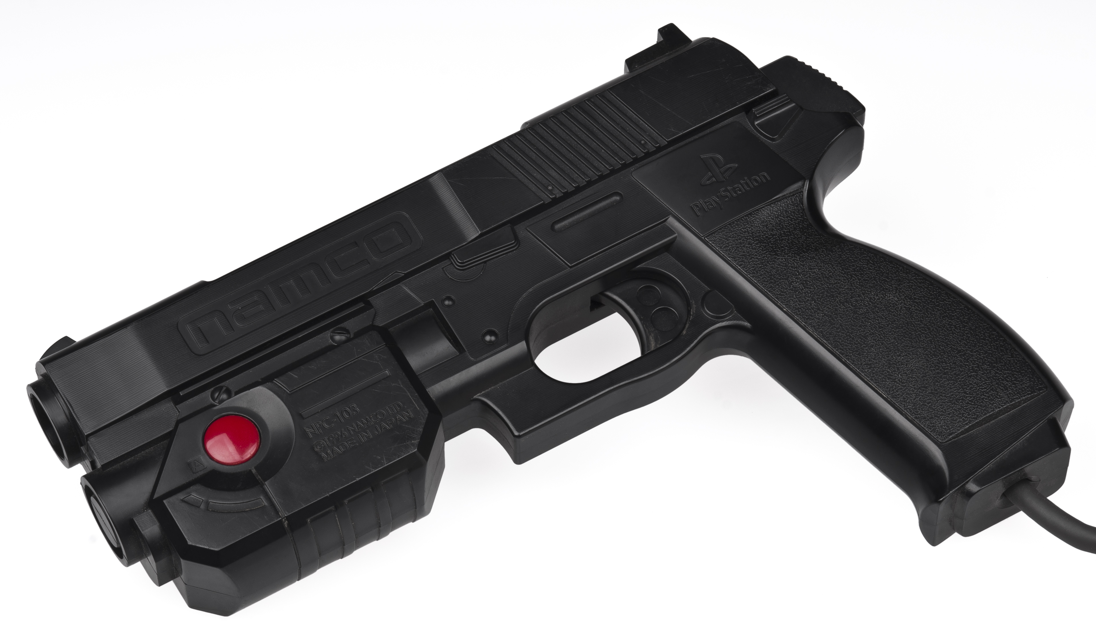 A black Namco GunCon controller for the original PlayStation console.